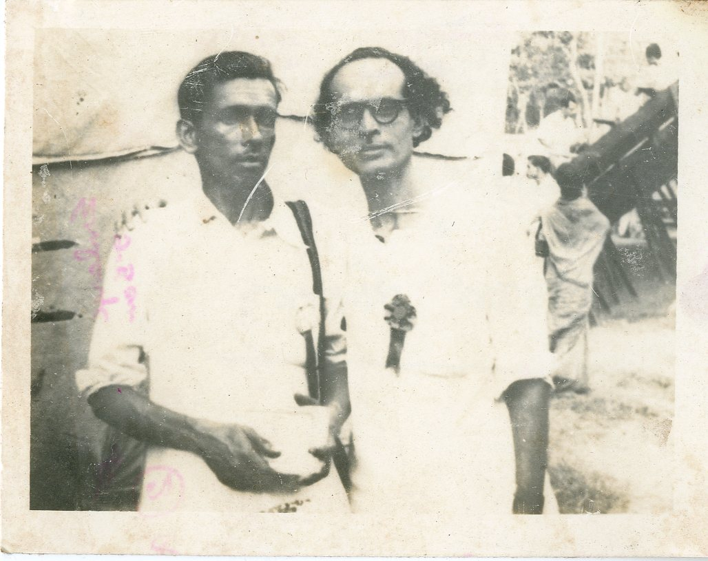 with Nibaran Pandit